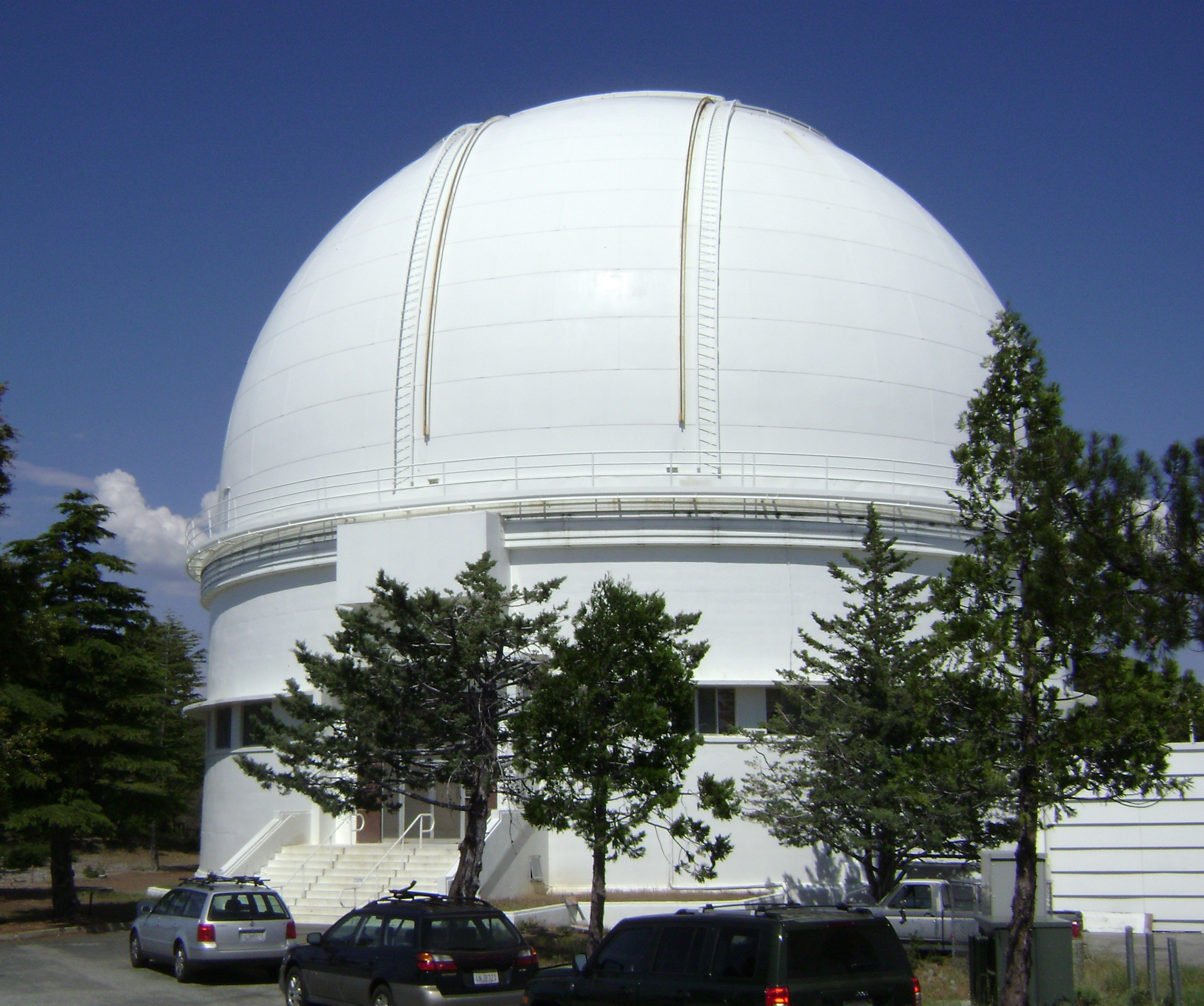 The dome housing the C. Donald Shane telescope at the Lick Observatory